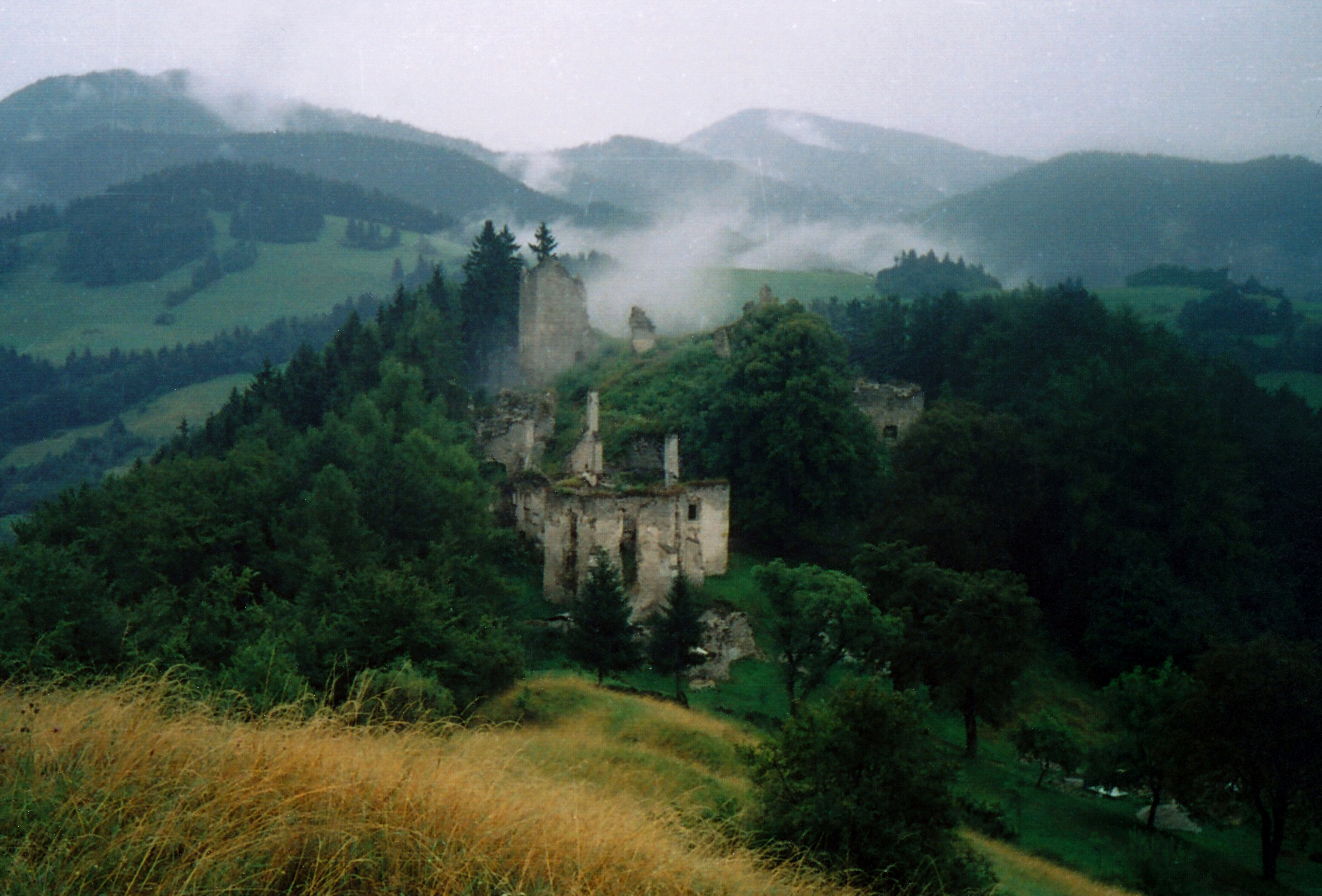 Sklabiňa Castle, VIII/2002